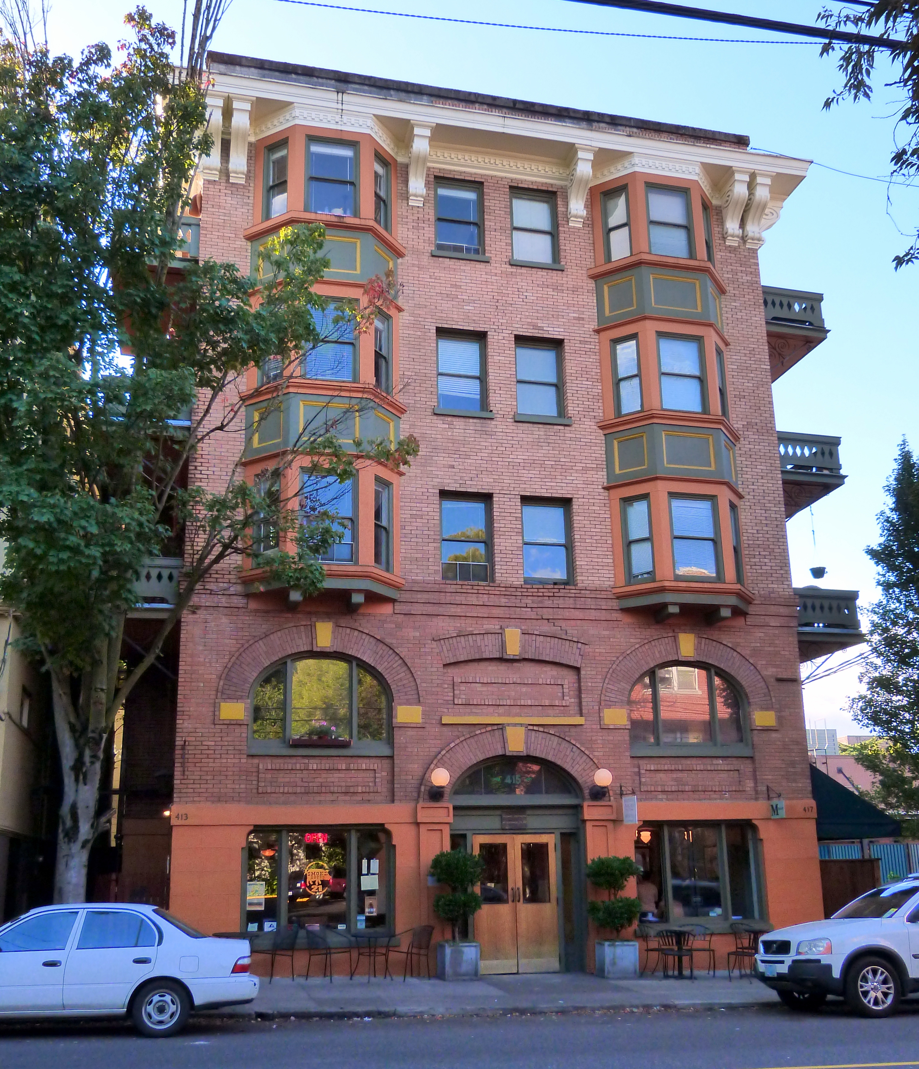 The historic Buck Apartment Building (built 1910), located at 415 Northwest 21st Avenue in Portland, Oregon, United States, is listed on the US National Register of Historic Places. It is additionally listed as a contributing resource in the National Register-listed Alphabet Historic District.